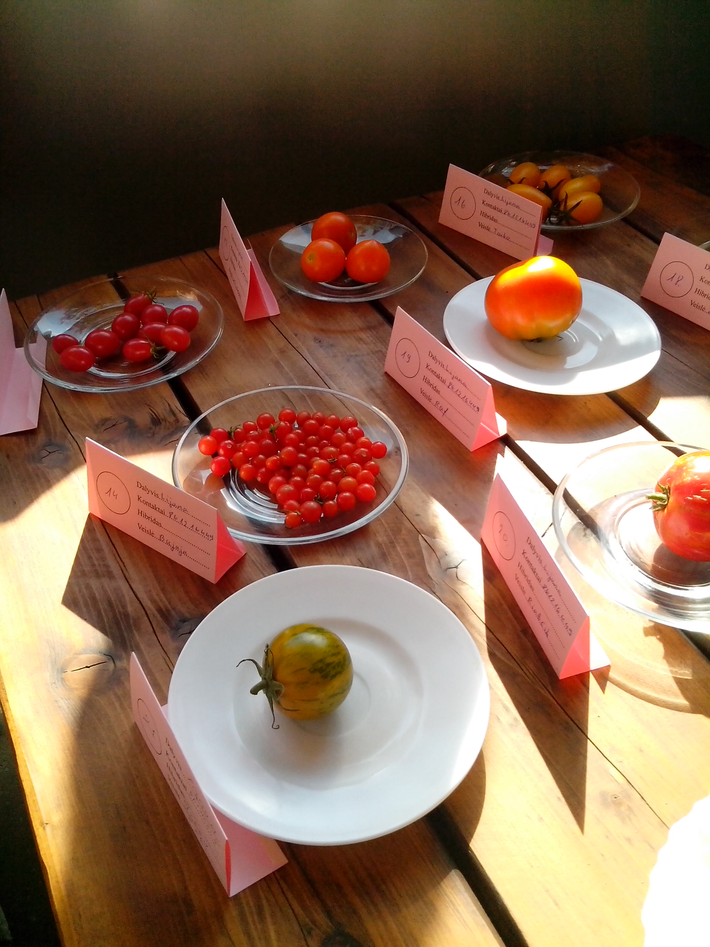 Alytus Tomato Tasting 2013, tiny tomatoes